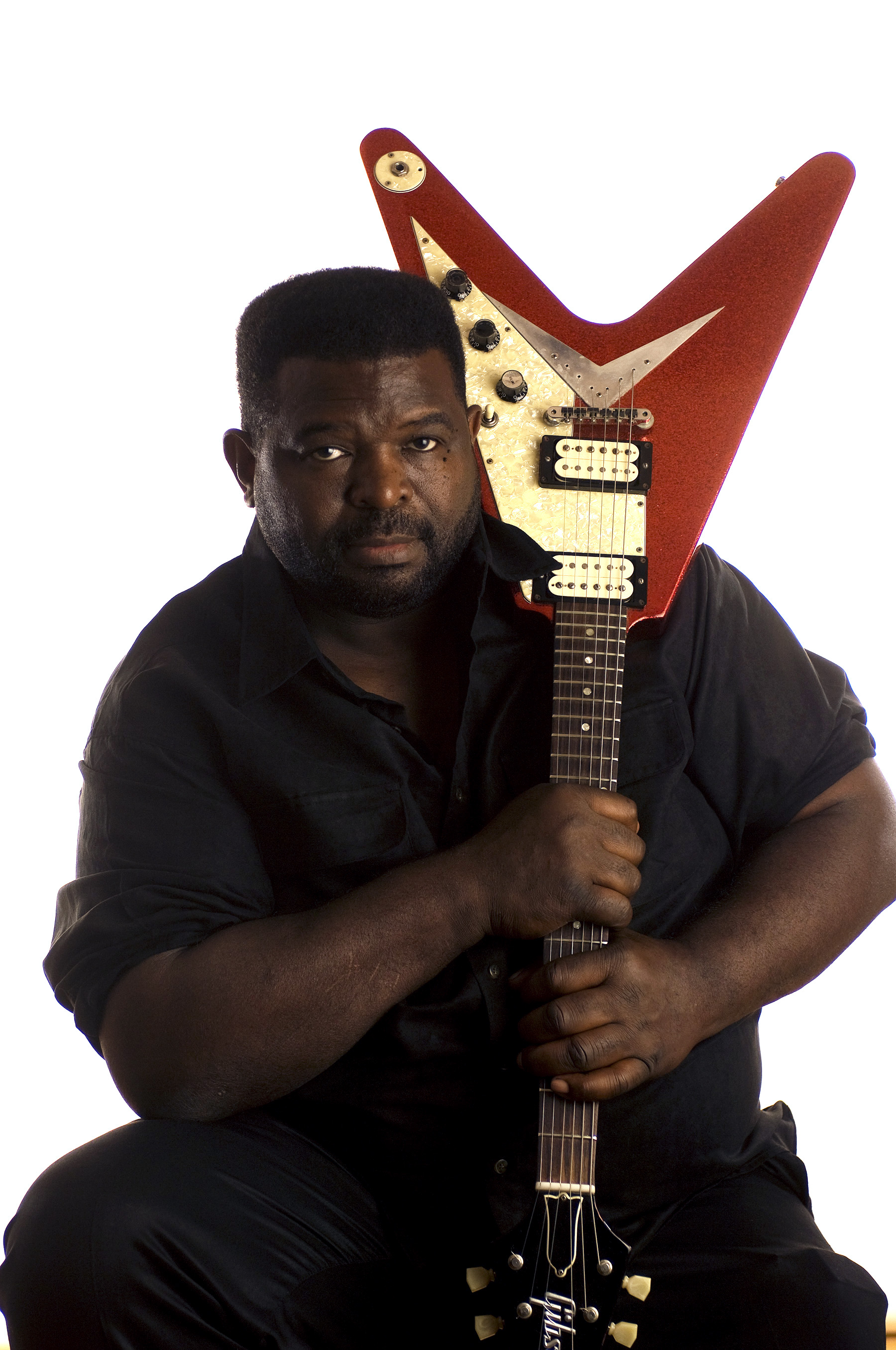 Publicity Shot of Michael Burks